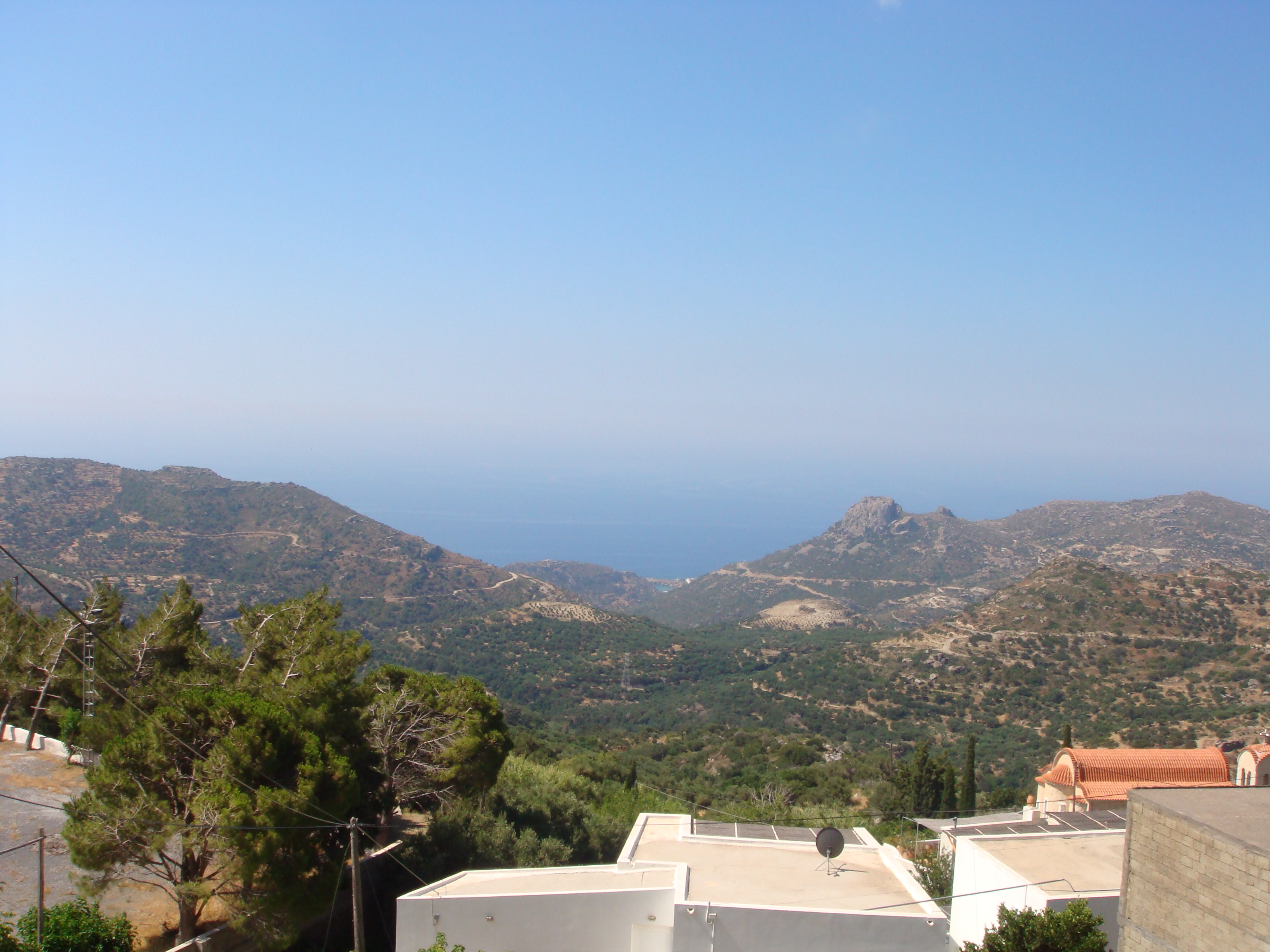 View of Agios Ioannis settlement, Lasithi prefecture.